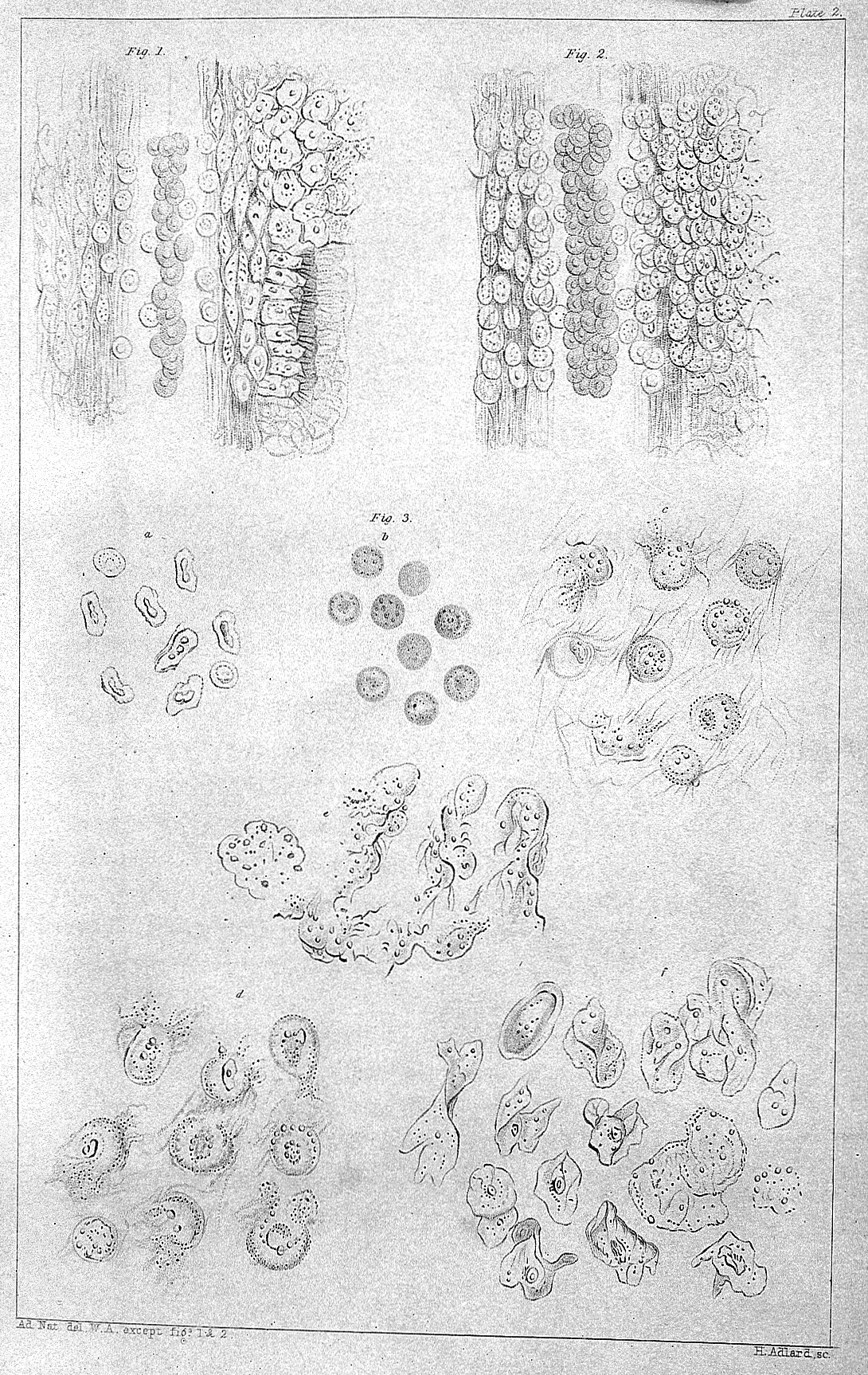 Blood corpuscles. The actual process of nutrition in the living structure demonstrated by the microscope. Rare Books Keywords: Microscopy; Microbiology